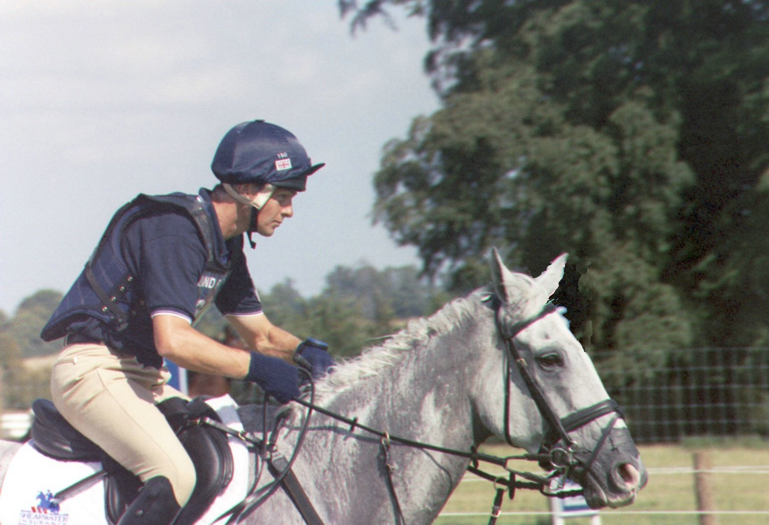 Leslie Law at Burghley (eventing, Feb 2004) with Shear H2O